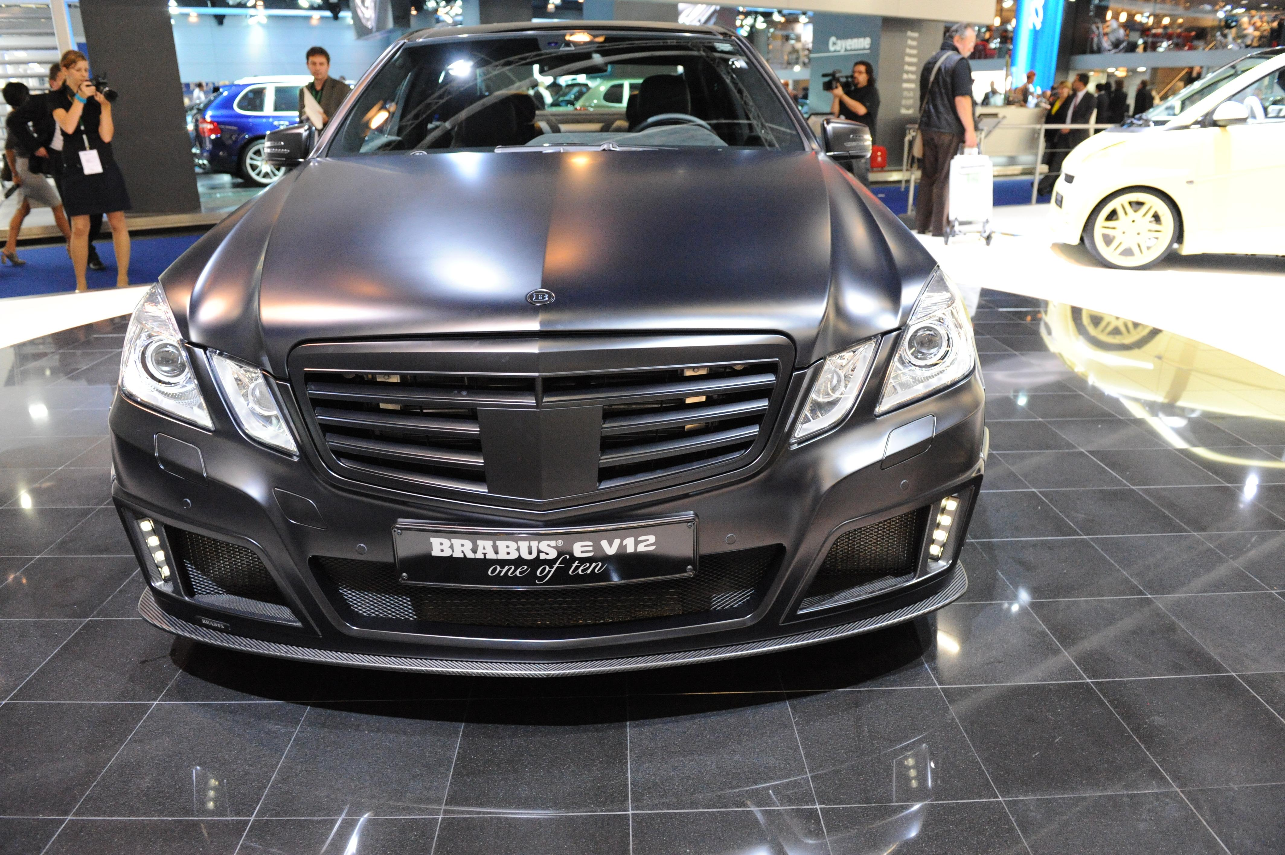 BRABUS EV12 Limited Edition (10 units) exhibited at 2009 Frankfurt Motor Show